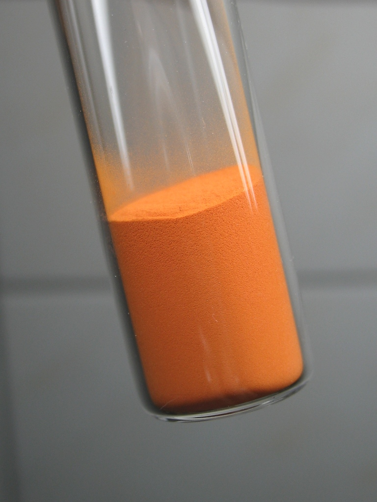 Mercury(II) oxide powder